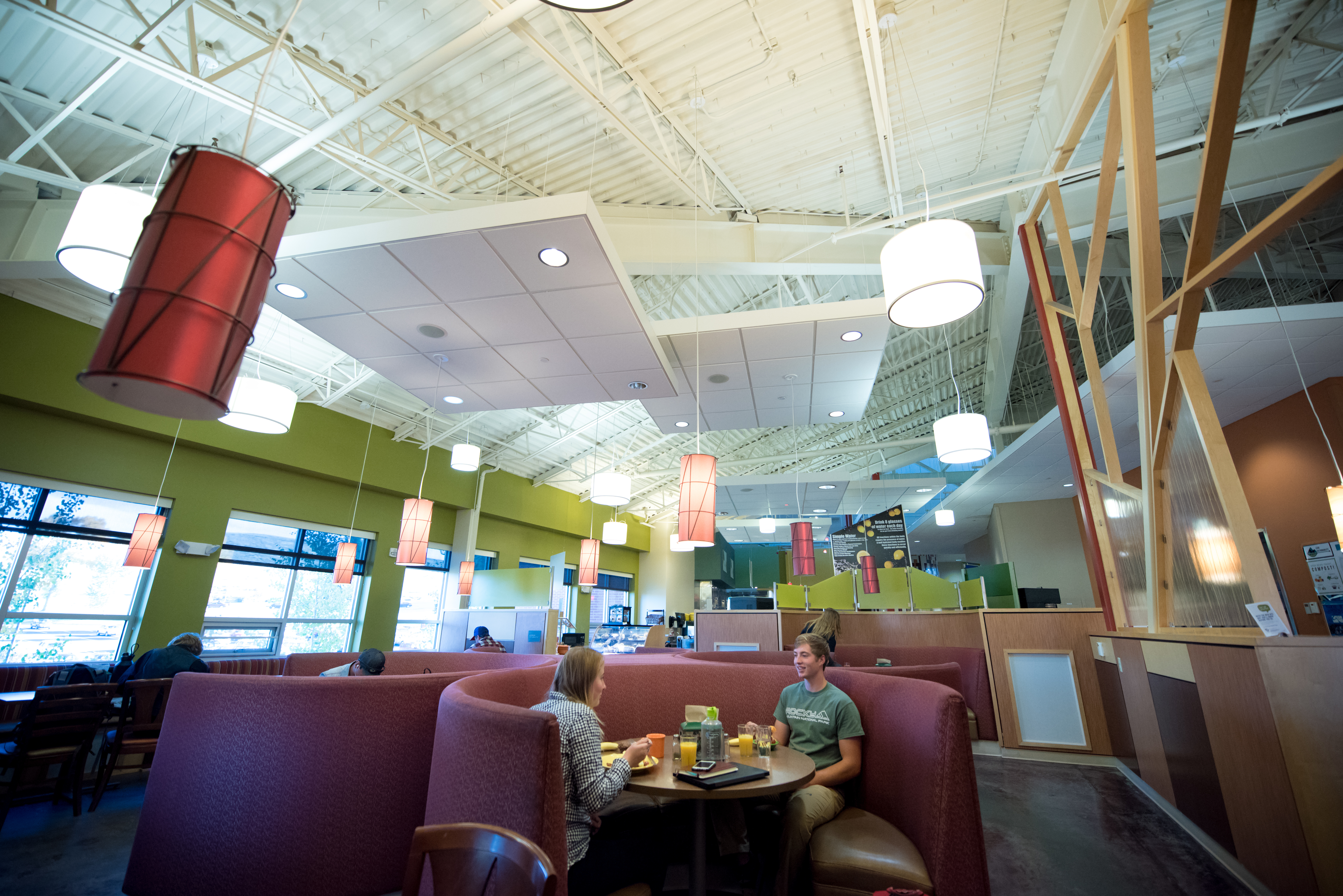 Rare Air Cafe at Western Colorado University